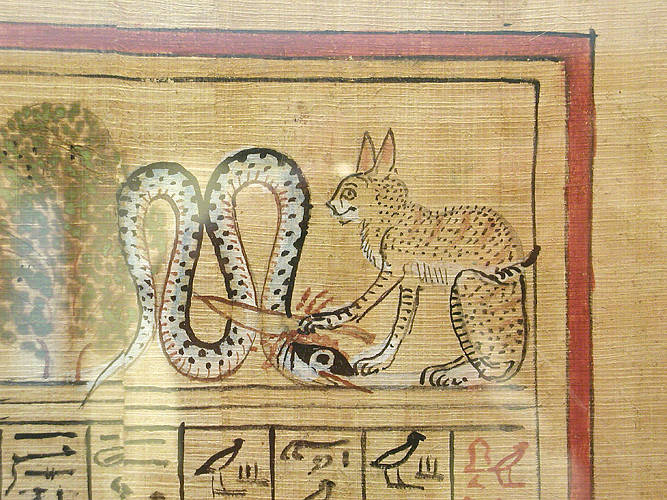 Detail from the papyrus of Hunefer; the sun god represented as a cat kills the serpent of darkness with a knife.